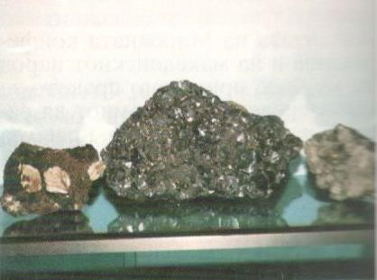 Mineral ore of lead and zinc